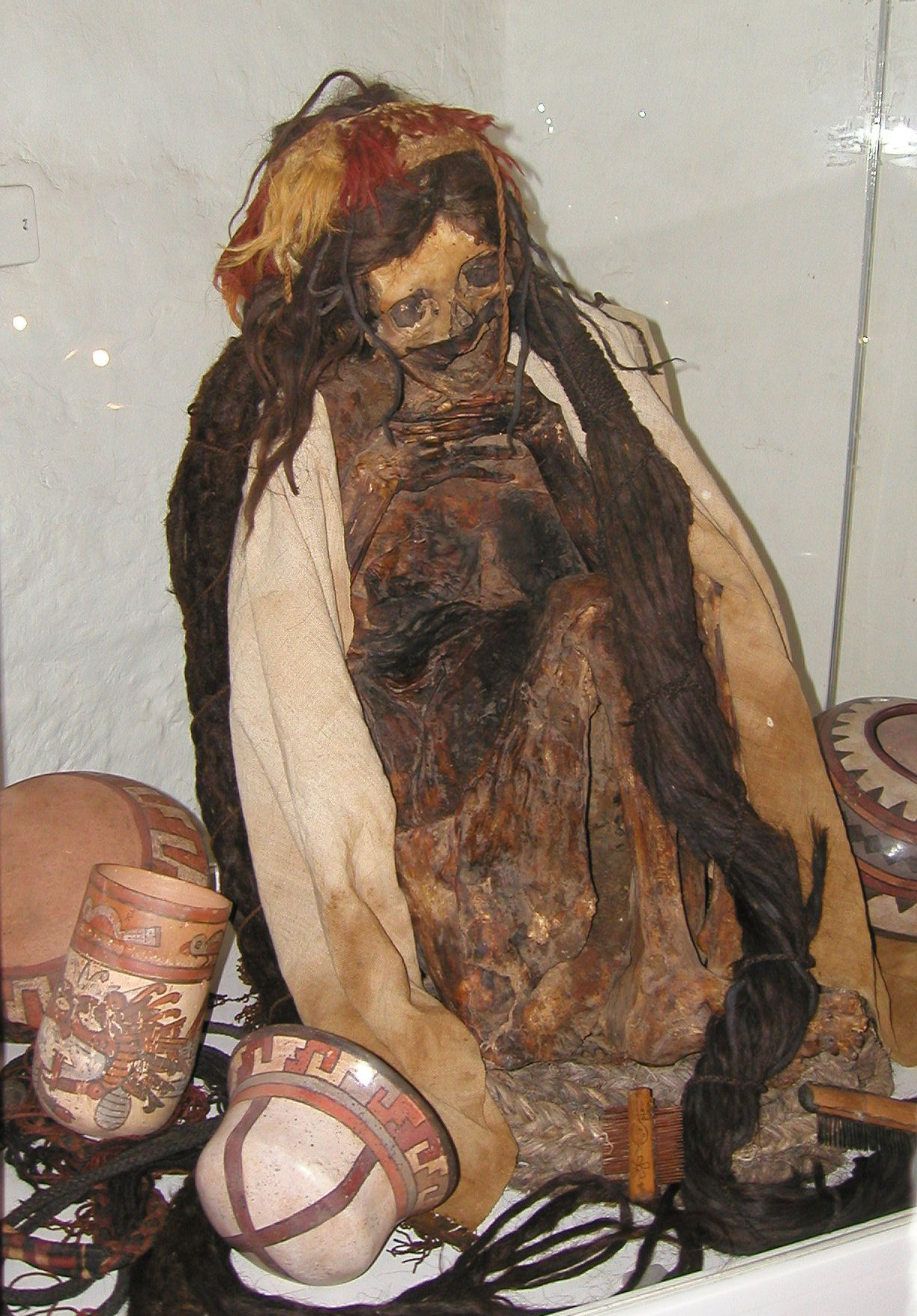 Nazca mummy with wig.